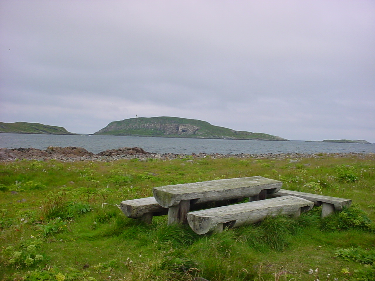 The island of Hornøya near Vardø, North Norway